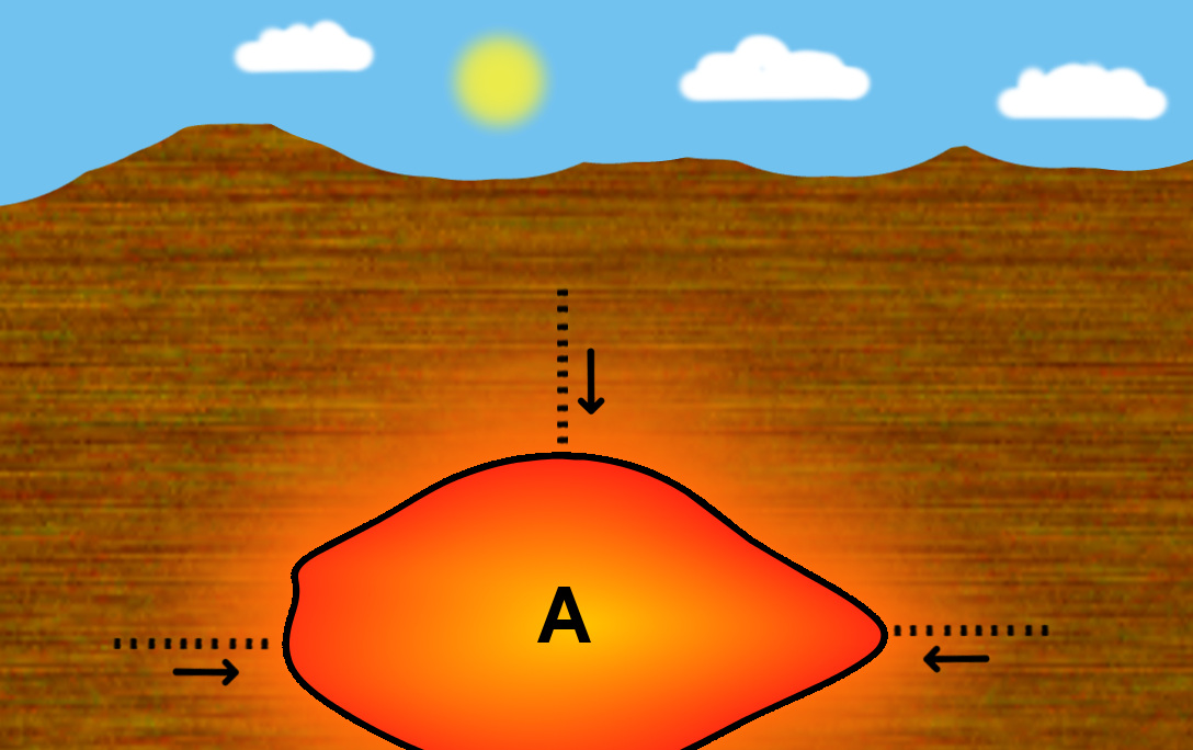 This JPG graphic was created with GIMP. Rock contact metamorphism